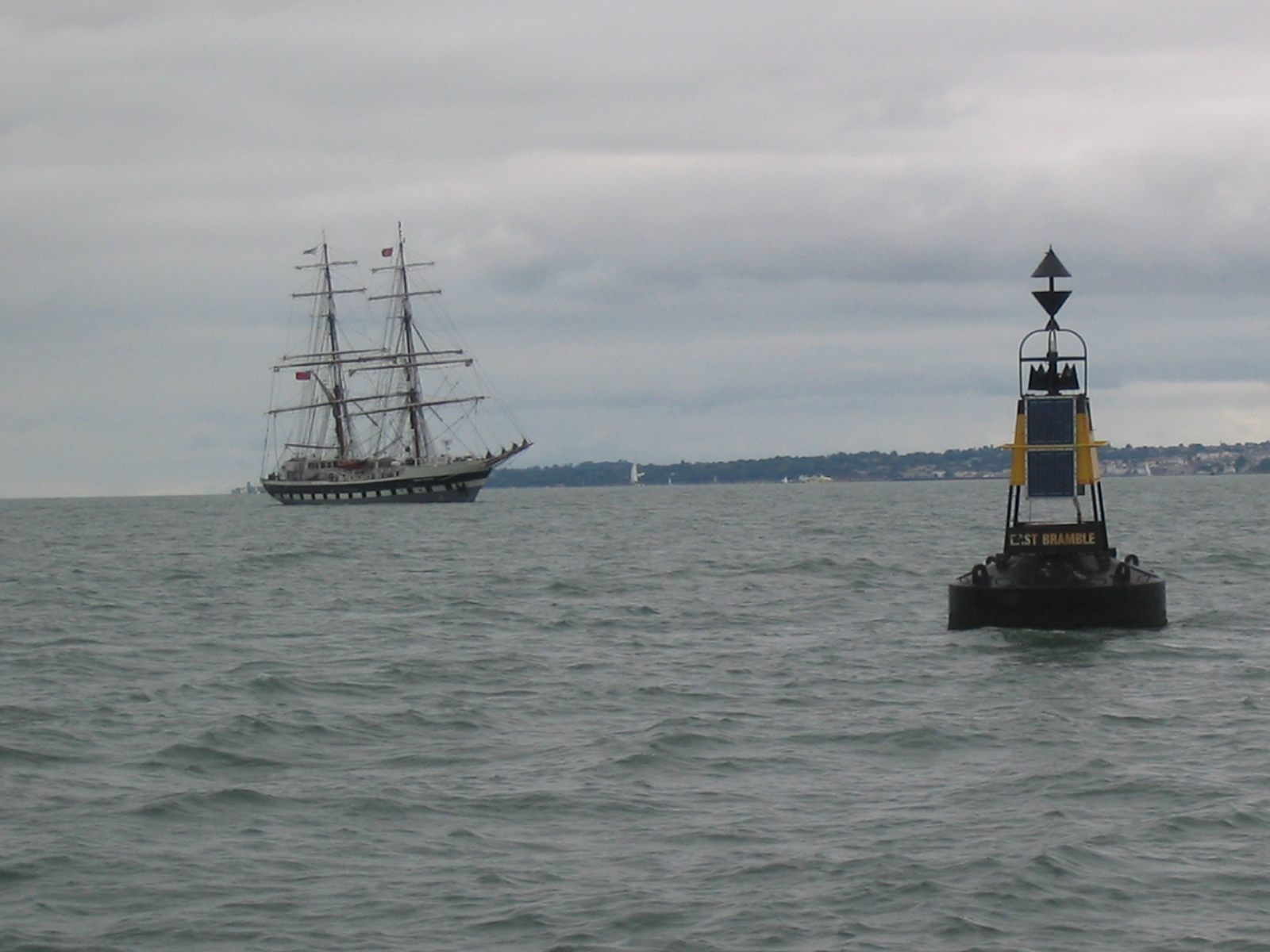 The sail training ship Stavros S Niarchos in the Solent passing south of the the East Bramble buoy on a westerly course. The characteristics of this cardinal mark indicate that safe water is to the east of the buoy. IMO Number: 9222314 MMSI Number: 232007330 Callsign: MZIU7 Length: 59 m Beam: 10 m